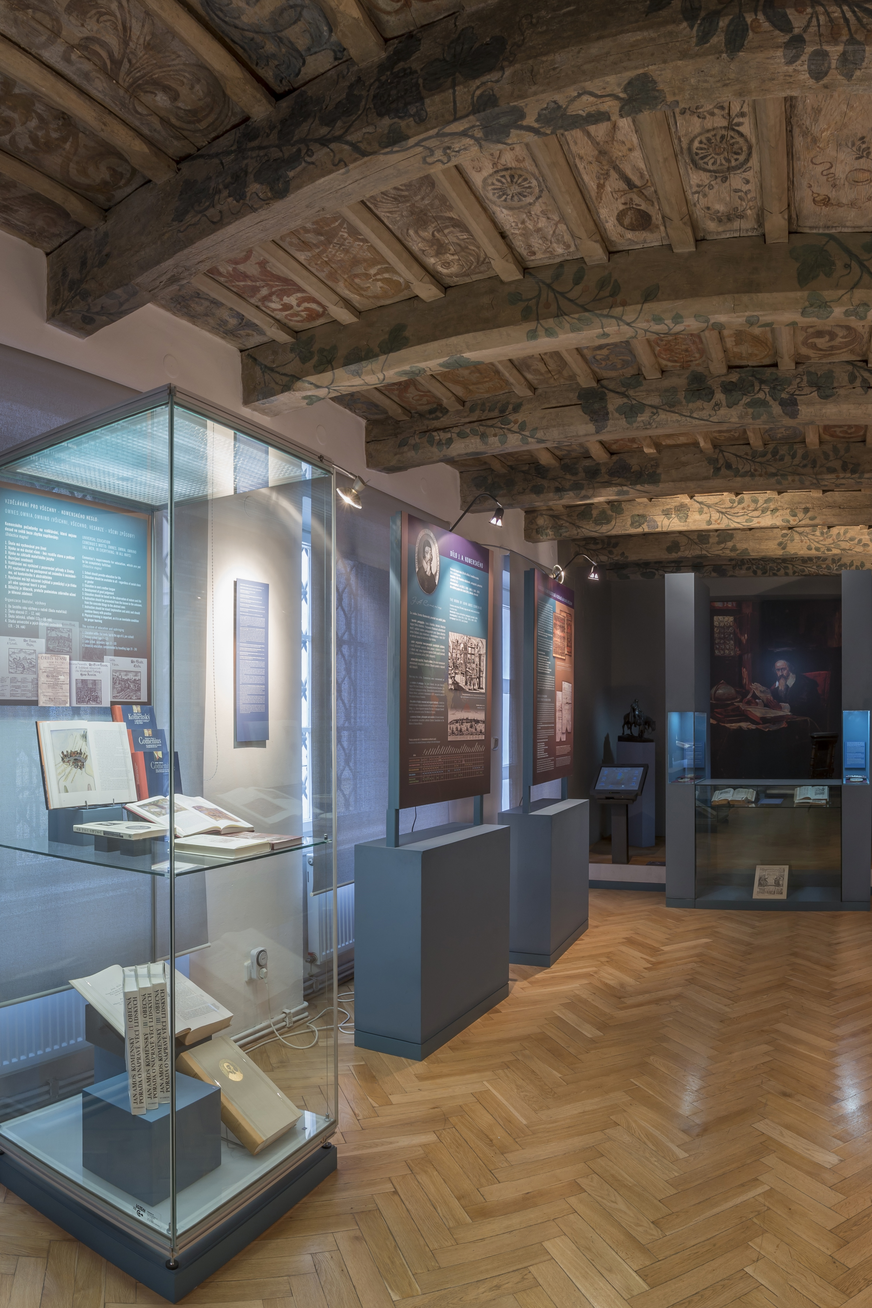 Muzeum je součástí instituce: Národní pedagogické muzeum a knihovna J. A. Komenského v Praze. Instituce se zabývá dějinami školství, učitelstva a vzdělanosti v návaznosti na odkaz J. A. Komenského. Nabízíme služby v oblasti pedagogiky a vzdělávání.